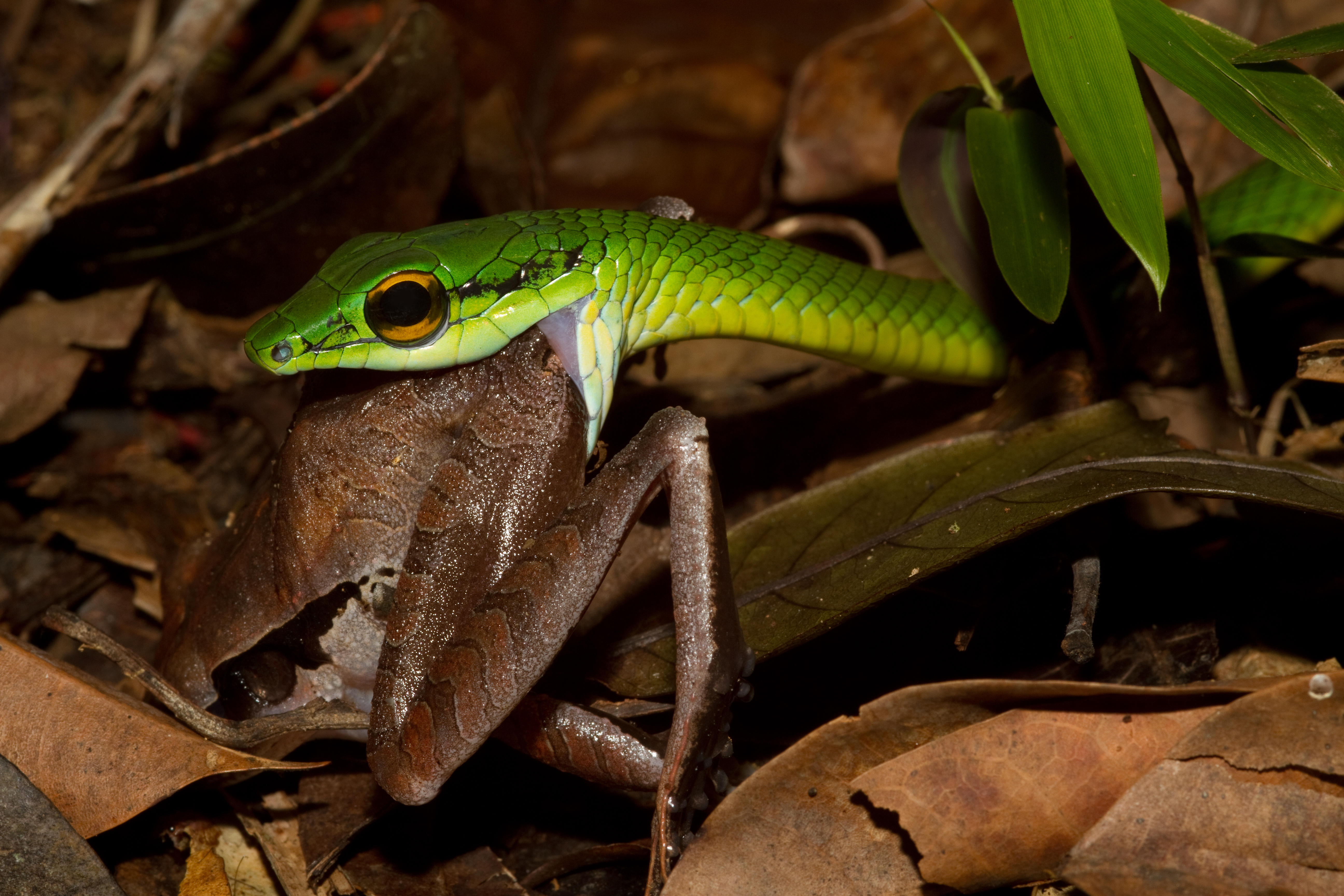 Leptophis ahaetulla Snake Eating a Frog (Craugastor gollmeri) in Panama. Taken in the Mamoni Valley near Chagres National Park Panama, Cannon D7, 100mm sigma lense, external flash, F 1/14, ISO 100, 1/250 Sec.